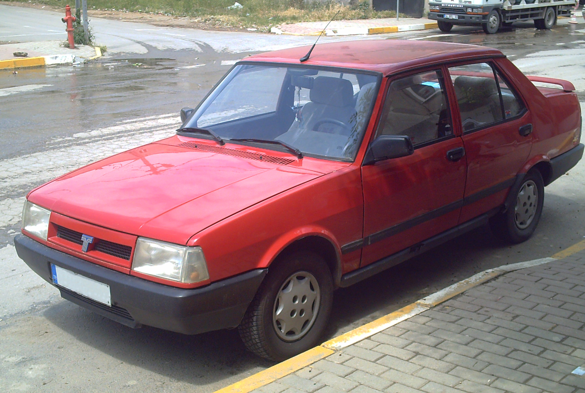 A 1994 Tofaş Doğan SLX, a late license-built version of the Fiat 131. Istanbul plates.